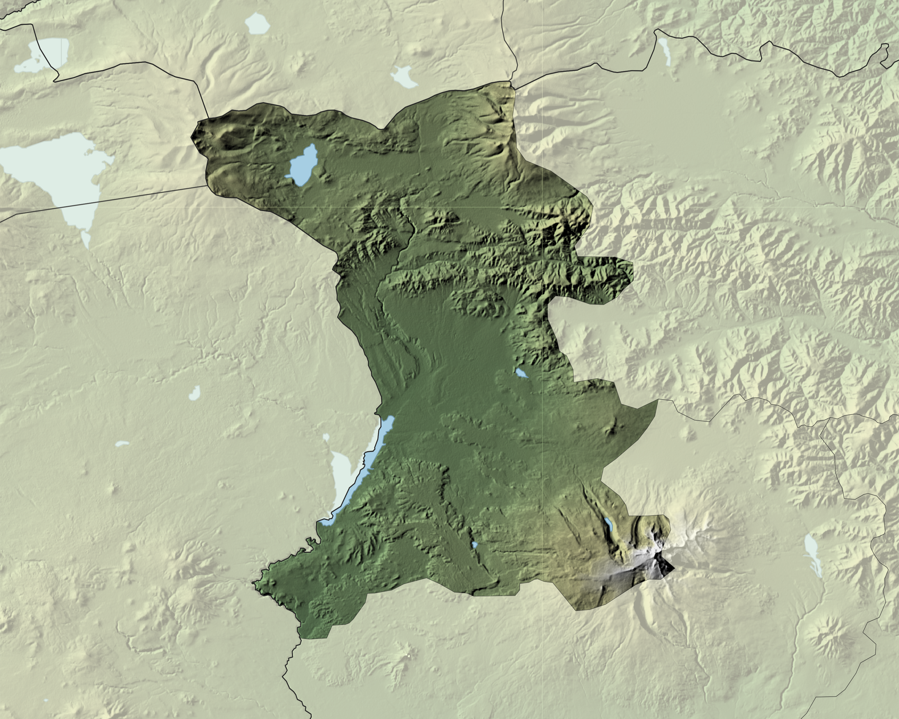 Hillshaded map of Shirak province of Armenia